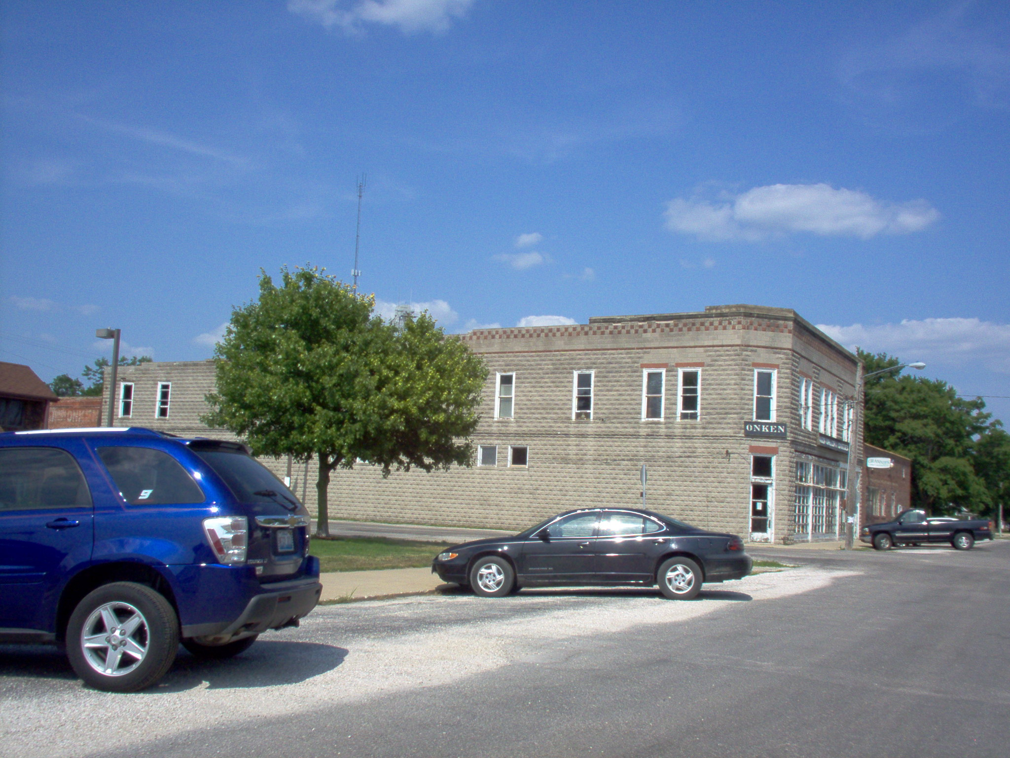 Old Onken store in downtown Chapin.